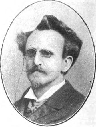 Frank Smith, independent labour member of London County Council, former newspaper editor and leading member of the Salvation Army. Later a Labour Party MP. Published in the UK on 12/3/1898